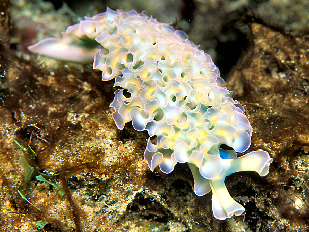 A lettuce sea slug (Elysia crispata) photographed in the waters off of Curacao's Playa Forti. This species is probably the Caribbean's most common type of sacoglossan . I used a 105mm macro and full 100J strobe. Want a closer look? Zoom to full size!